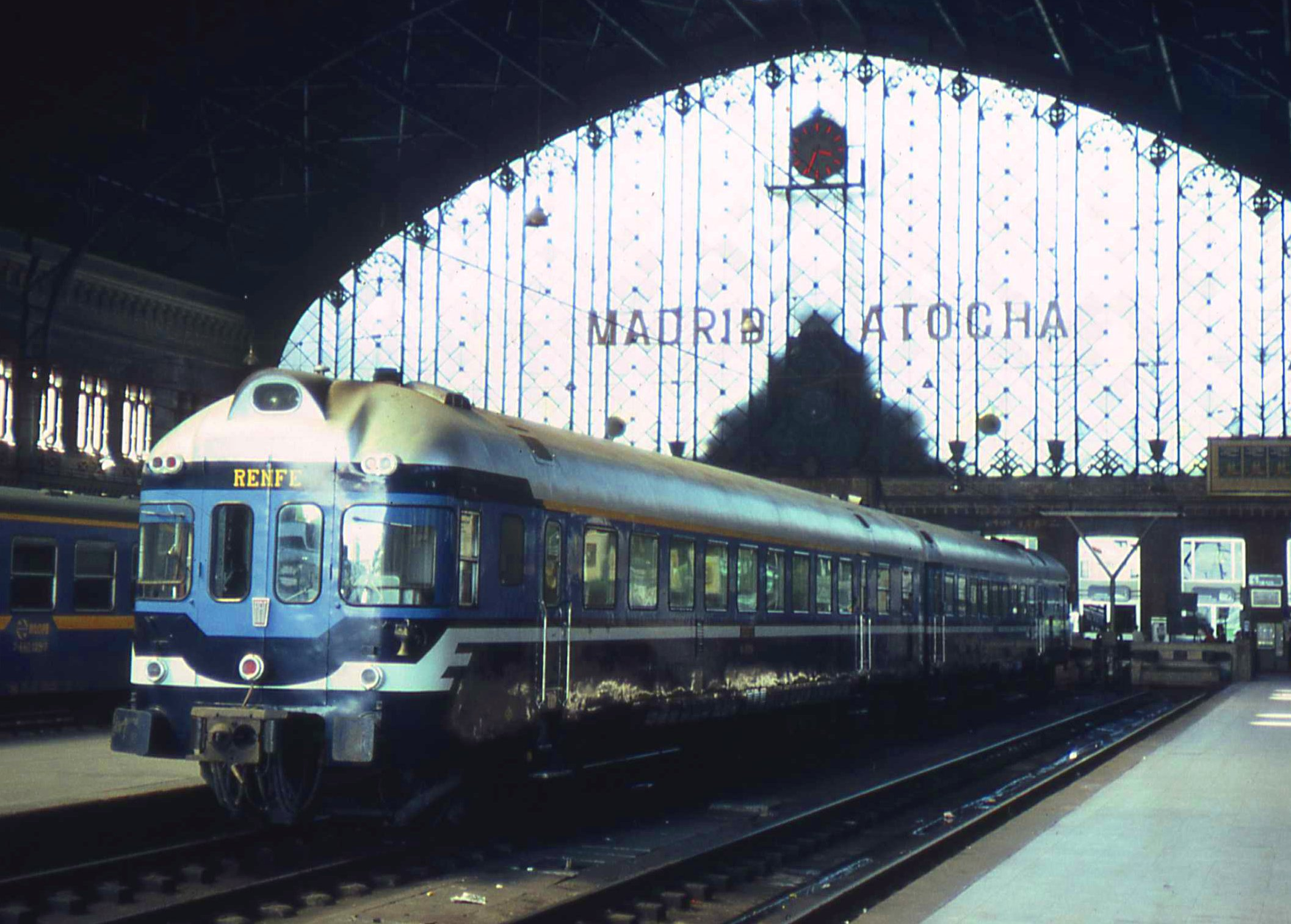 Renfe Class 597 Diesel multiple unit in old livery in old Madrid Atocha hall in 1981.